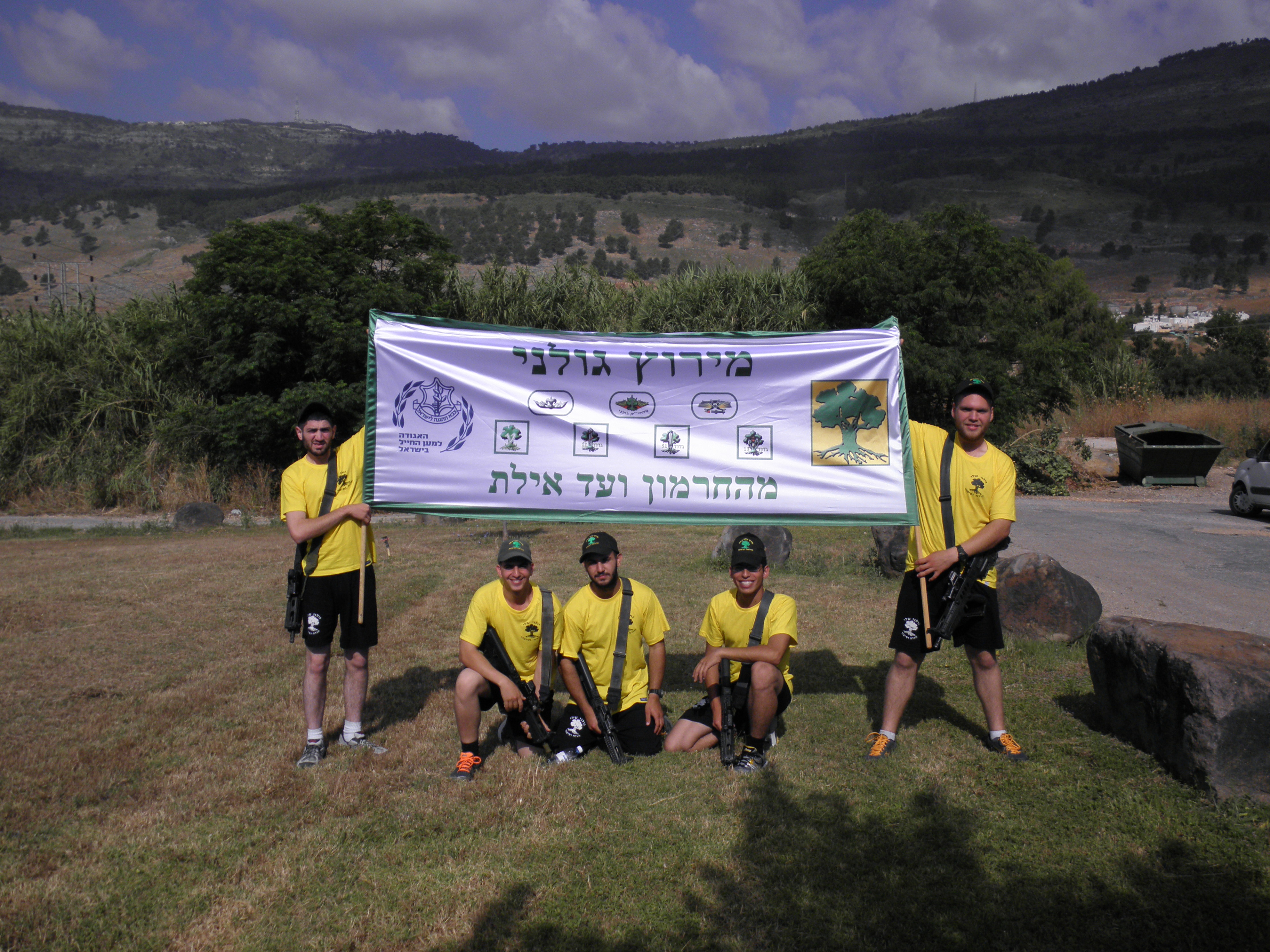 June 12, 2011. The 26th infantry Golani Brigade race took off on Sunday (June 11) in a ceremony at the start line in Mount Hermon, and will continue throughout the country ending this coming Thursday (June 16) in a formal ceremony at the Ink Flag plaza in Eilat - thus crossing the country from north to south.